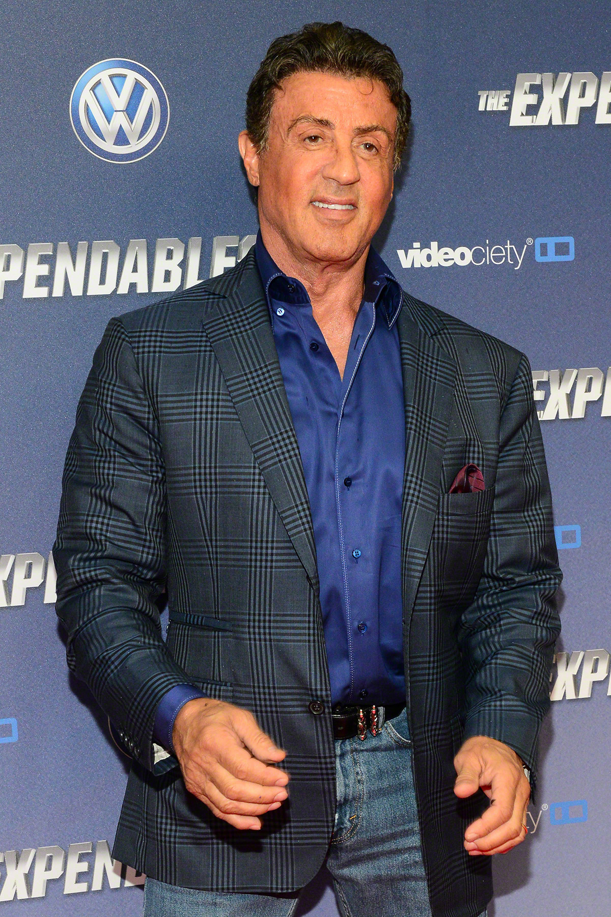 Sylvester Stallone attend the German premiere of the film "The Expendables 3" at Residenz cinema on August 6, 2014 in Cologne, Germany.